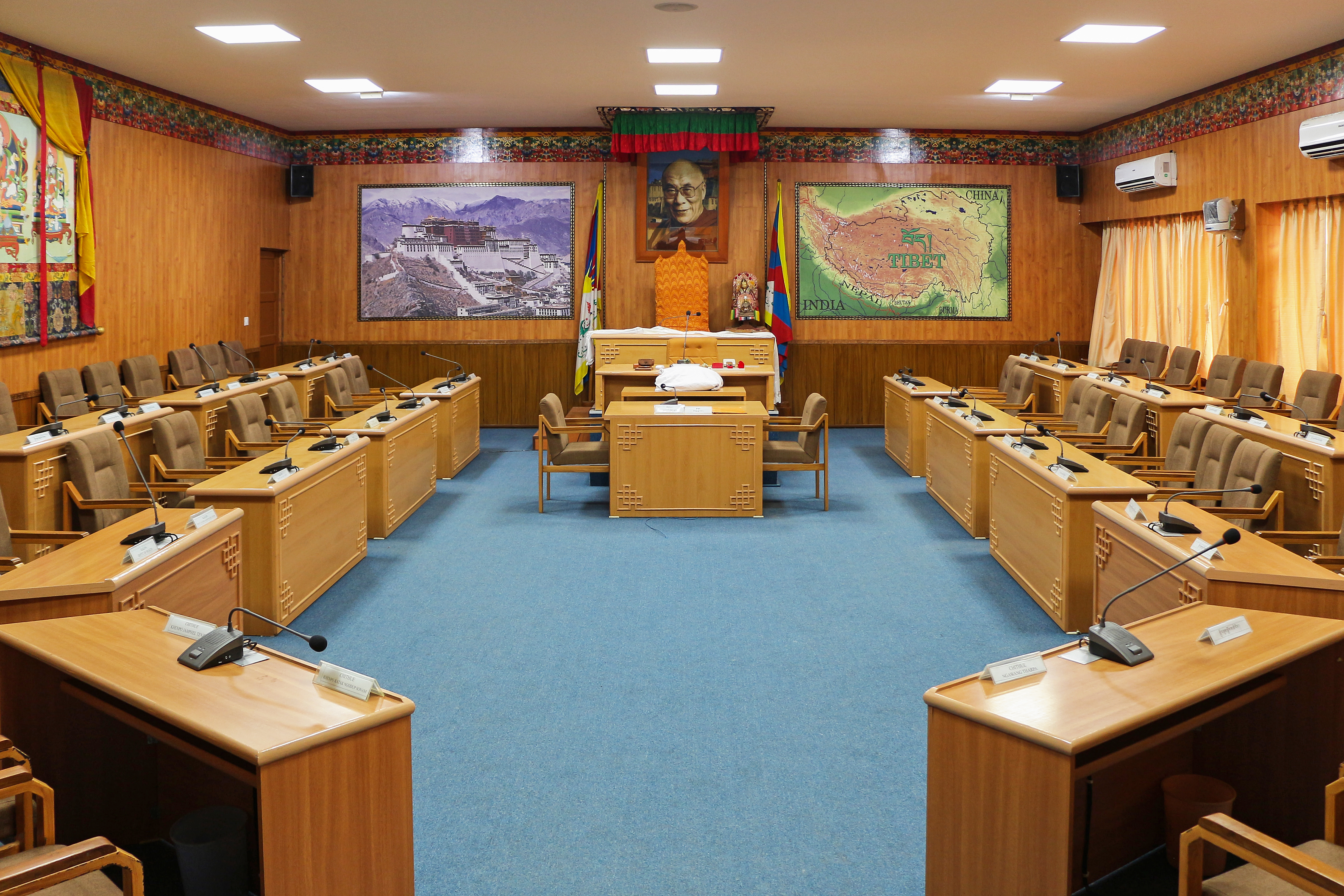 Parliament of the Central Tibetan Administration, Dharamsala, India